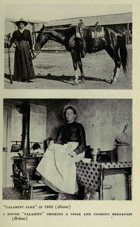 Photos of Calamity Jane in 1885, and in her kitchen in Livington, Montana, 1901; from Down the Yellowstone", Louis R. Freeman, 1922